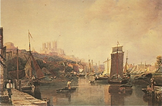 Watercolour of the Brayford Pool, Lincoln, looking from the SW towards Lincoln Cathedral